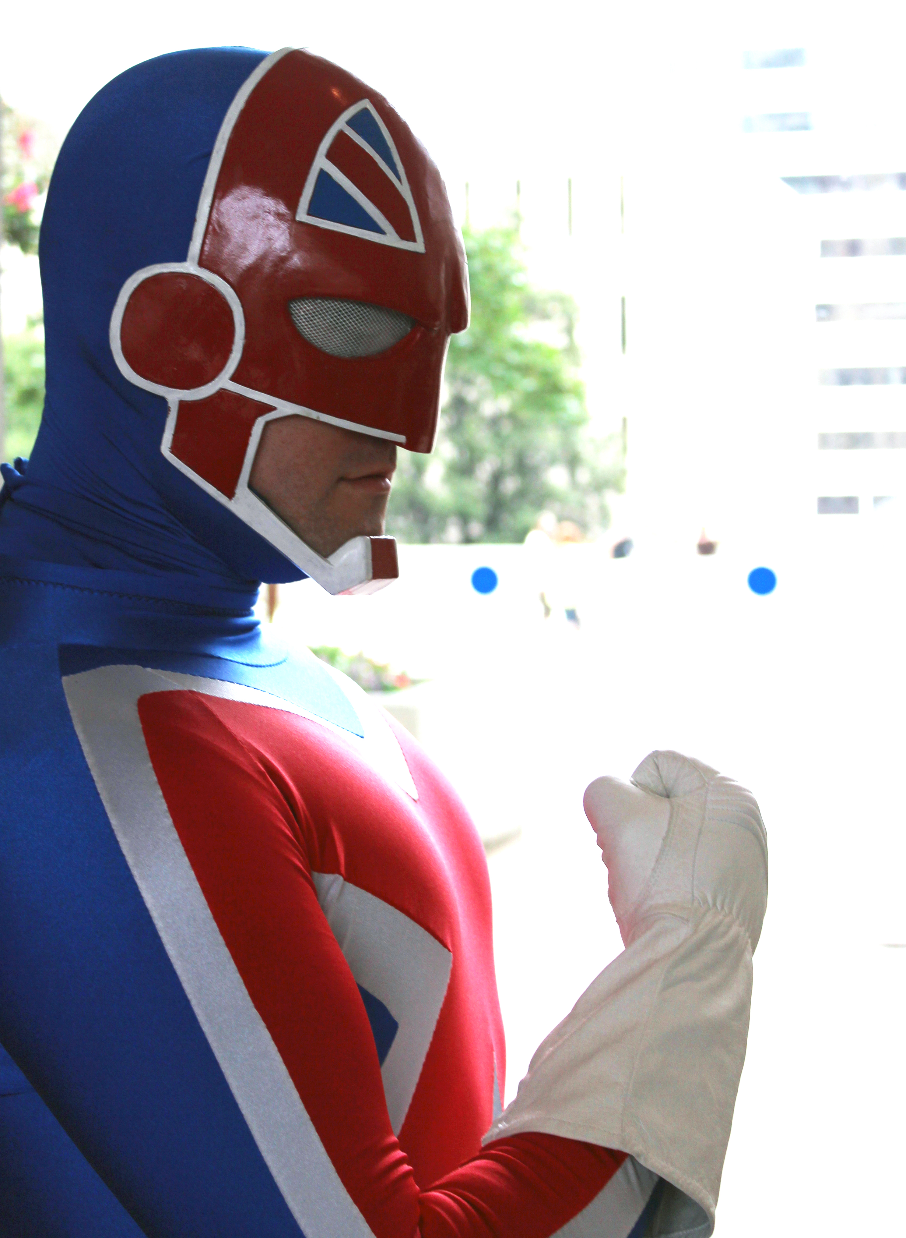 Cosplay of Captain Britain